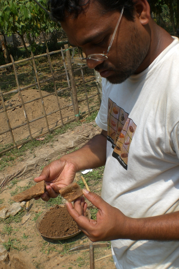 An archeologist has just got an artifact (pottery). Photograph taken by Shehab.